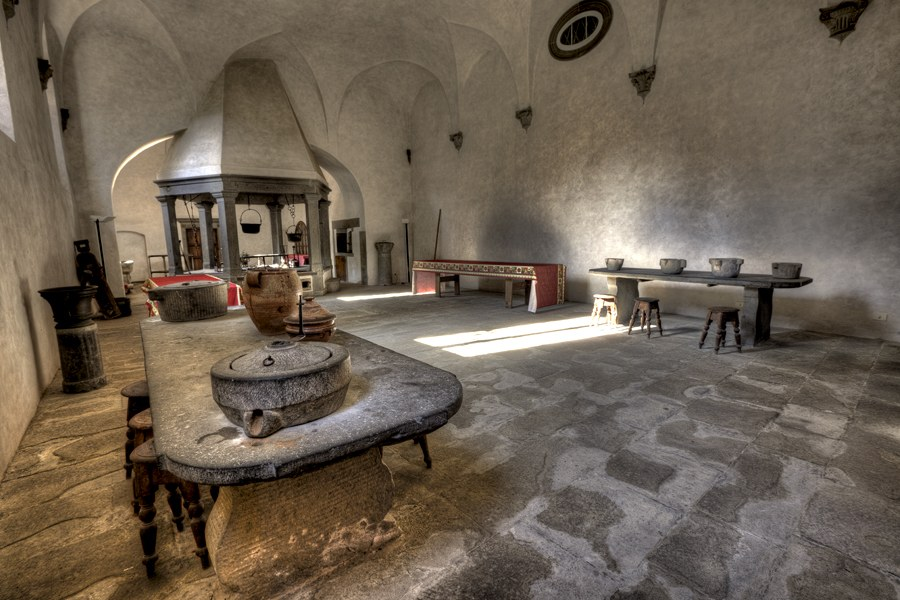 Old kitchen of Vallombrosa Abbey, Tuscany - Italy.